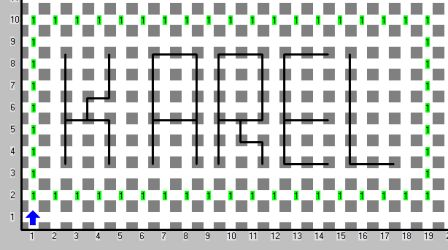 Screenshot of Karel, software used in the OMI (Olimpiada Mexicana de Informática, Mexican Olymphiad in Informatics)